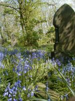 I took this photo in May 1999 in St. Mary's Churchyard